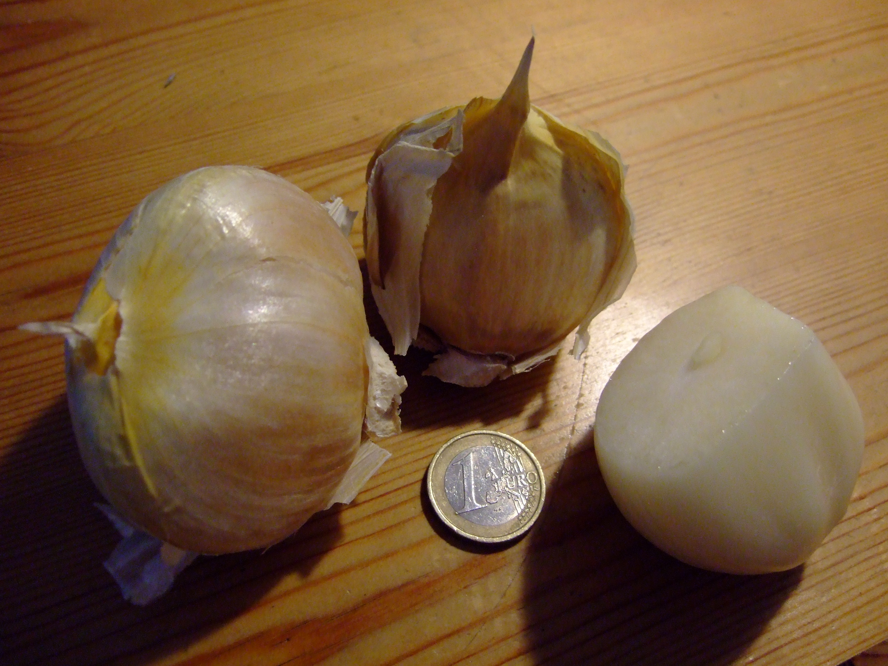 Three Allium ampeloprasum (elephant garlic) bulbs, two with tunics and one without tunic and cut open, with 1-euro coin for scale